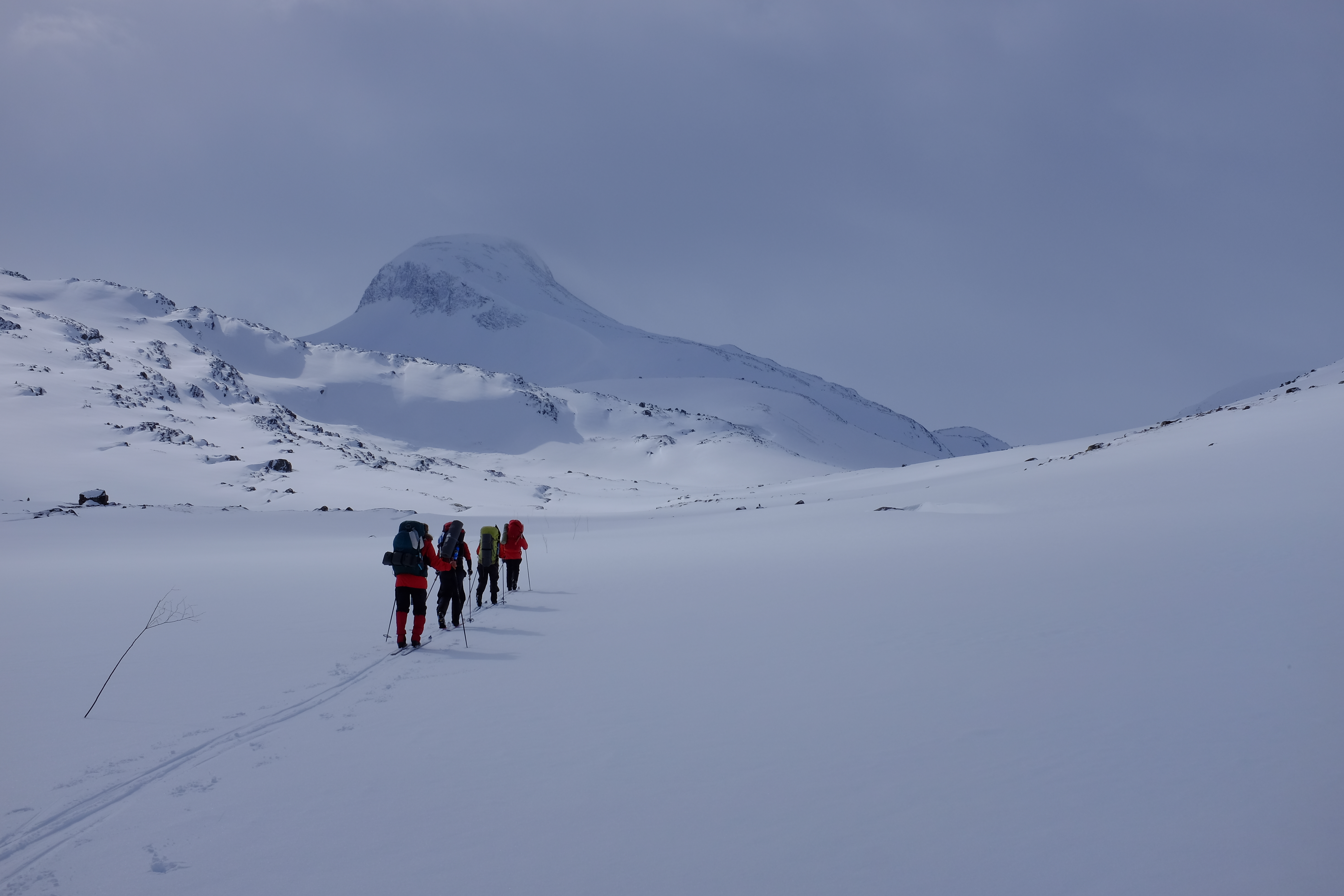 The skiers following the marks with Tverrådalskyrkja in the background, Breheimen National Park, Norway